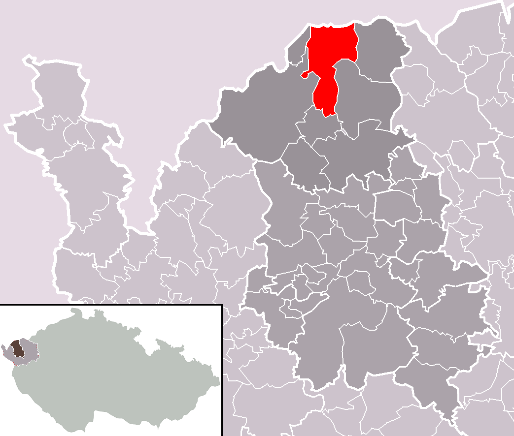 Location of Stříbrná municipality within Sokolov District and administrative area of Kraslice as a Municipality with Extended Competence.